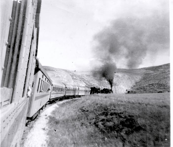 While traveling to Jerusalem I took this photo through the window of the car